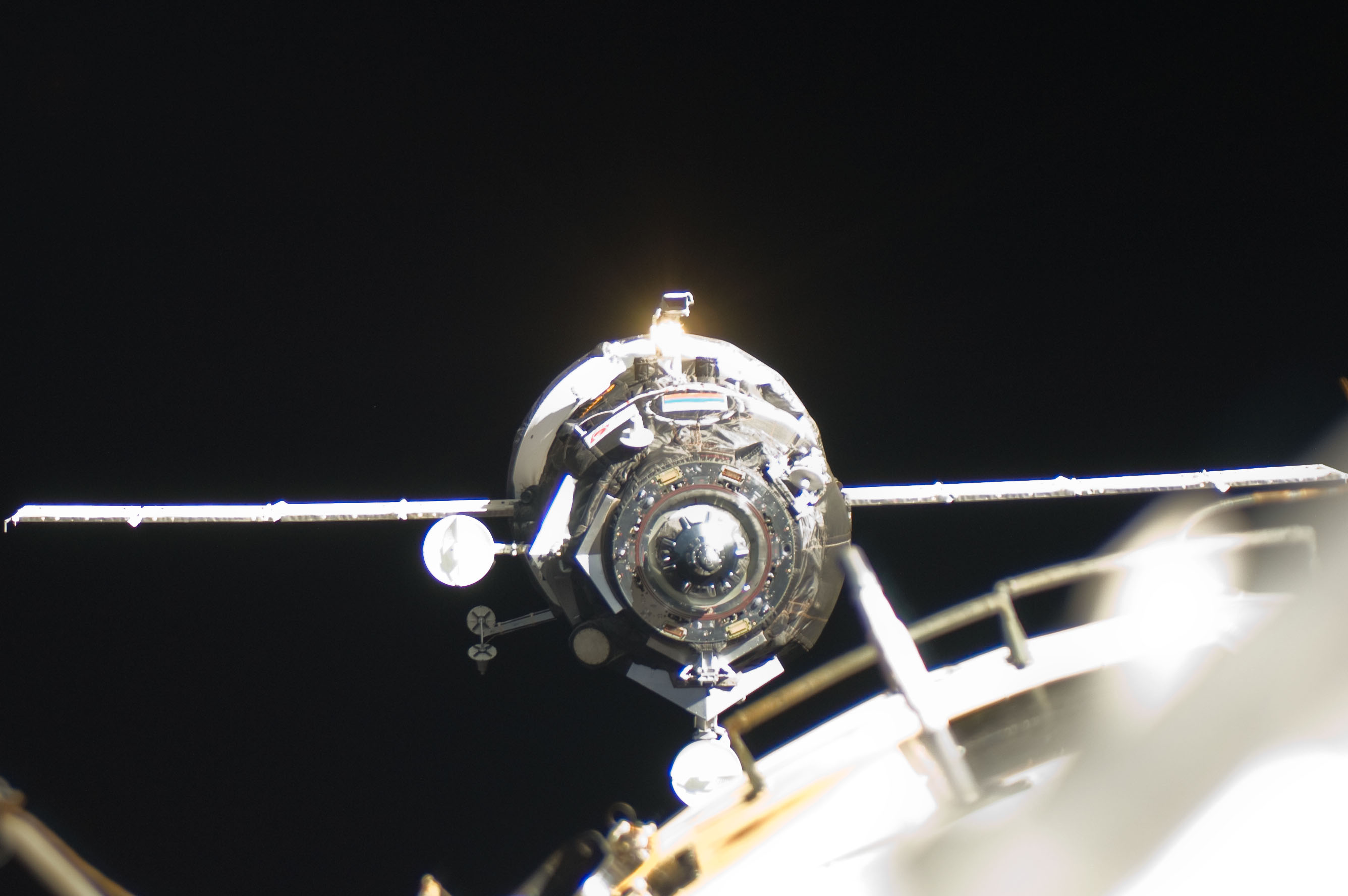 An unpiloted ISS Progress resupply vehicle approaches the International Space Station, carrying three tons of fuel, air and supplies to the Expedition 28 crew. Progress 43 docked automatically to the aft port of the station's Zvezda service module via the Kurs automated rendezvous system at 12:37 p.m. (EDT) on June 23, 2011.